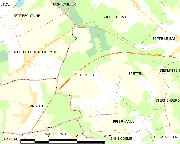 Map of French municipality